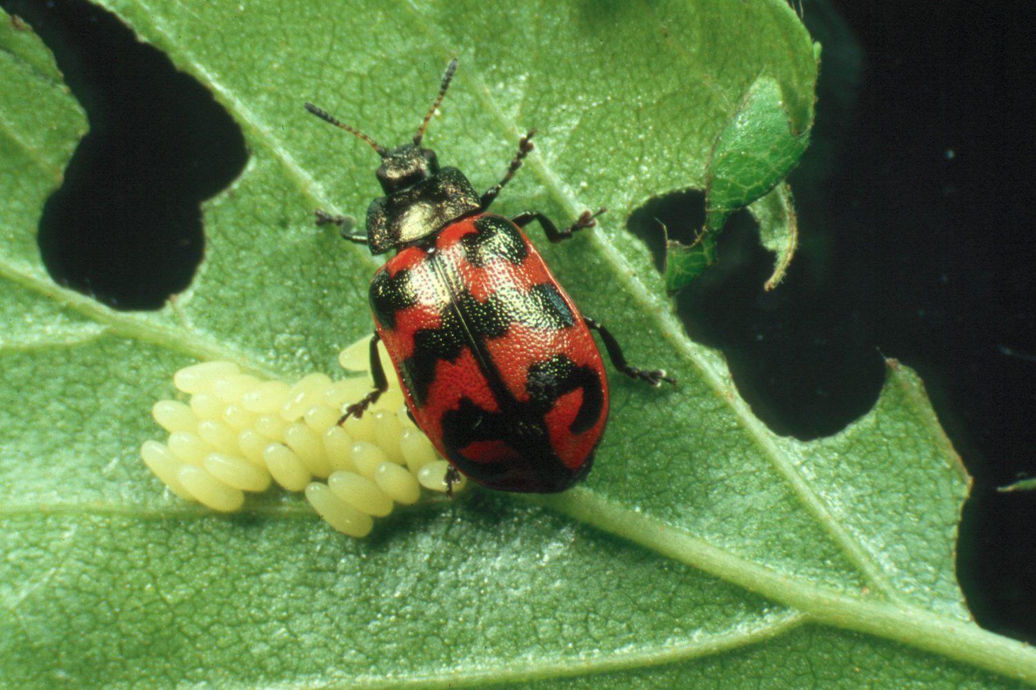 A female of the leaf beetle Chrysomela lapponica is ovipositing on a birch leaf at Kladska National Park, Czech Republic.